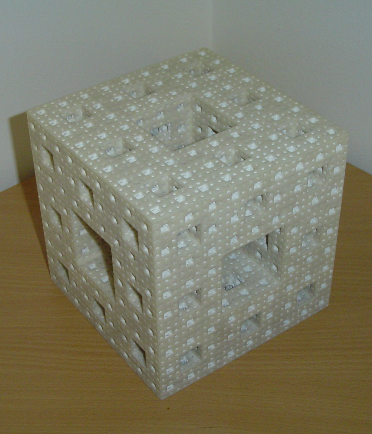 Menger Sponges 3D printed